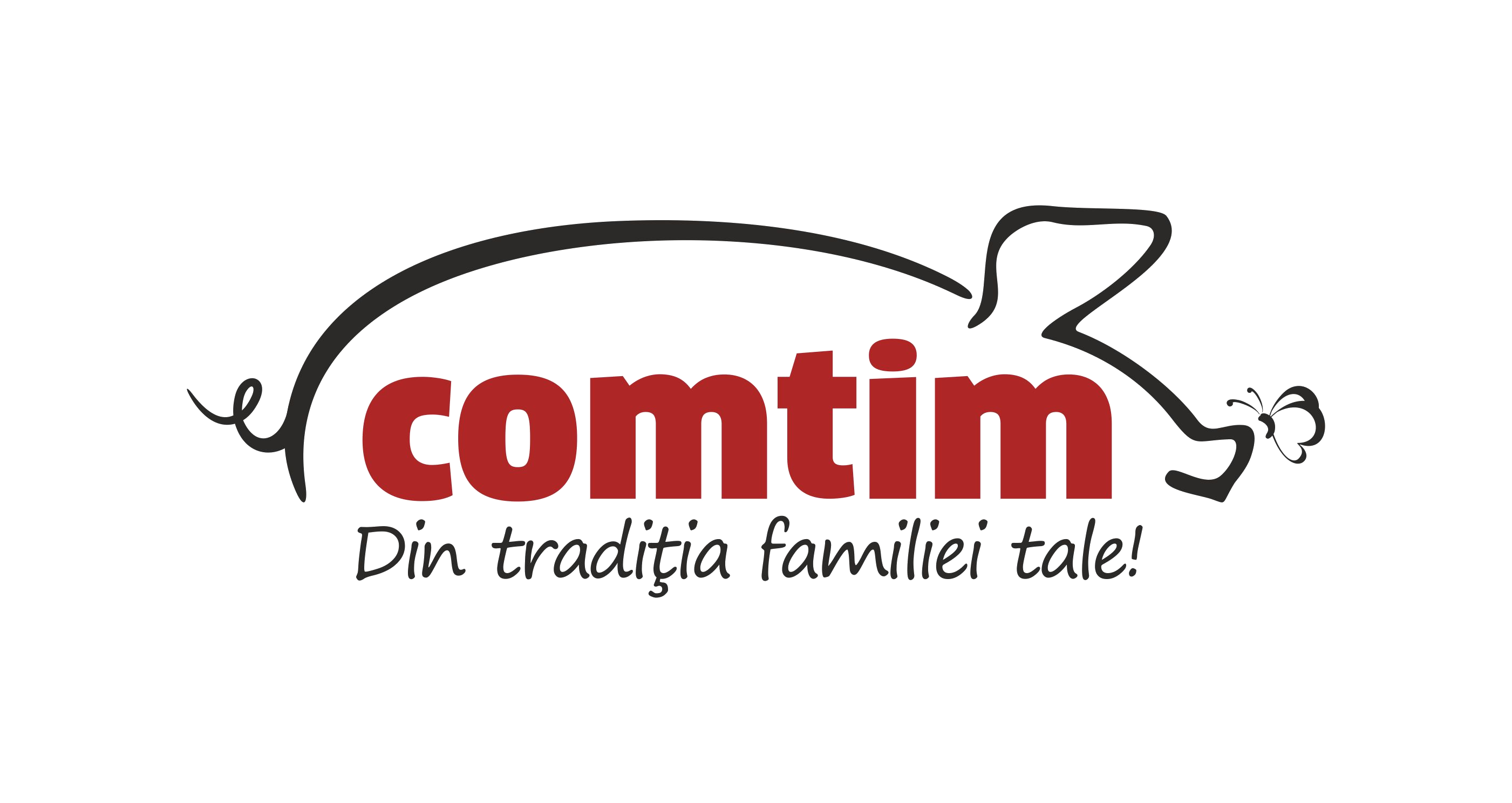 Comtim Logo